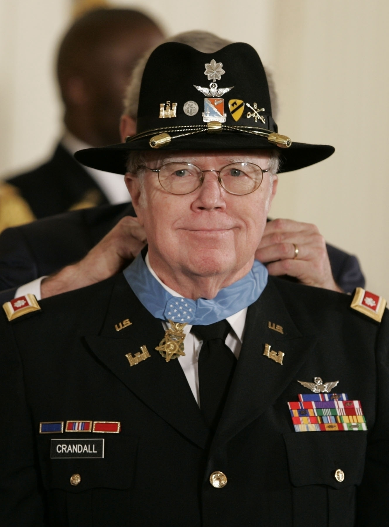 President Bush presents the Medal of Honor to retired Army Lt. Col. Bruce P. Crandall in the East Room of the White House on February 26, 2008, for his extraordinary heroism as a 1st Cavalry helicopter pilot and commander in the Republic of Vietnam in November 1965.